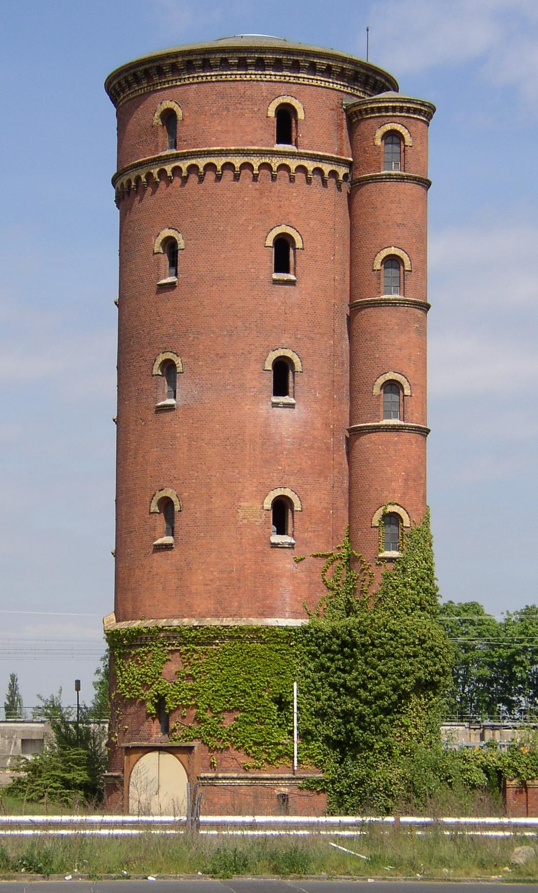 Water tower of former gas plant in Berlin-Charlottenburg, Germany